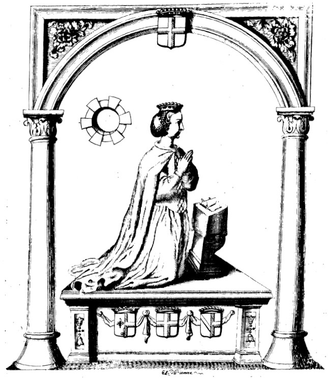 Marie of Savoy, Margravine of Baden-Hochberg (1455-1511), daughter of Amadeus IX, Duke of Savoy; wife of Philip, Margrave of Baden-Hochberg.